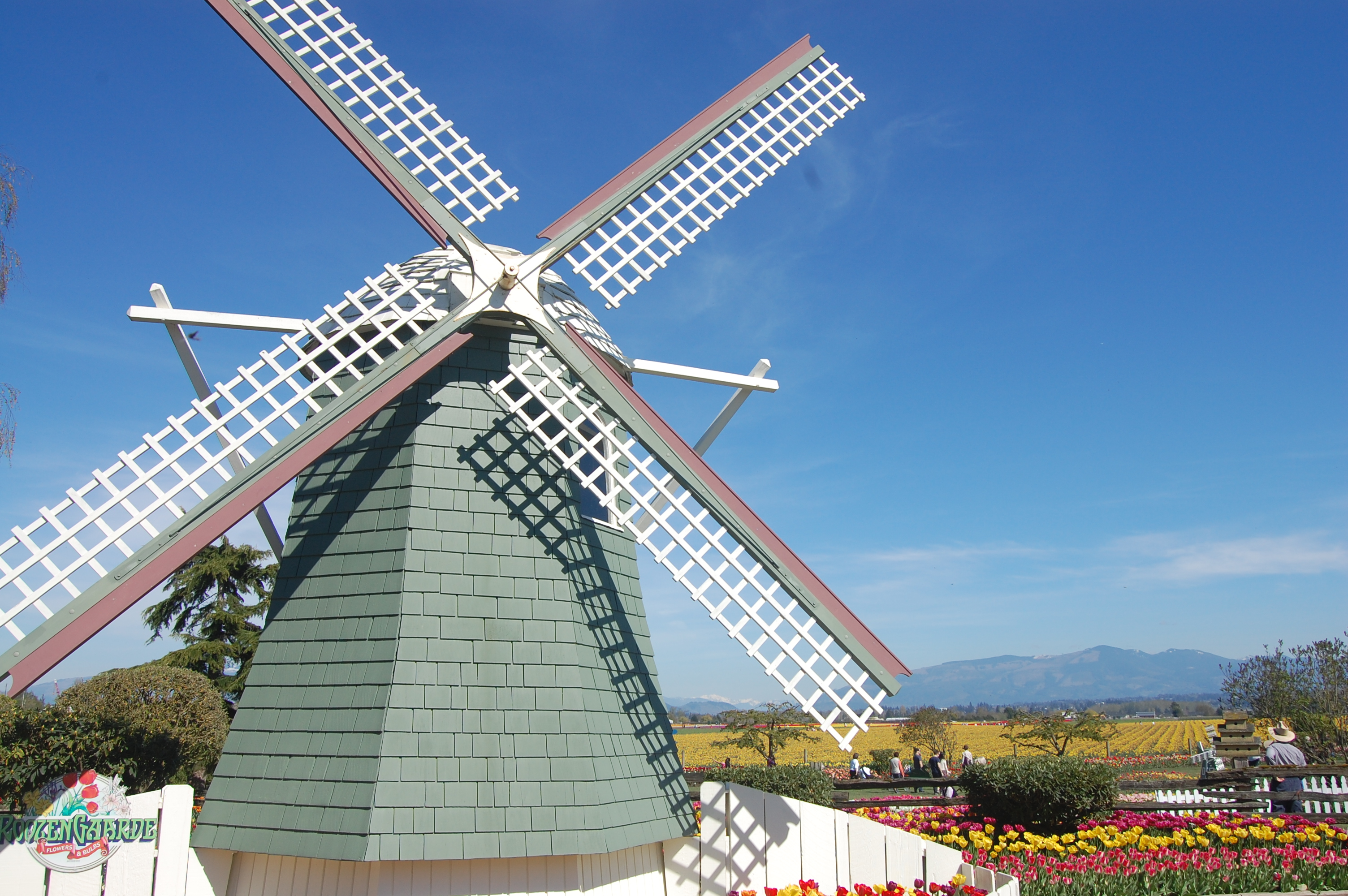 Photograph of a decorative windmill at Roozengaarde in Mount Vernon.